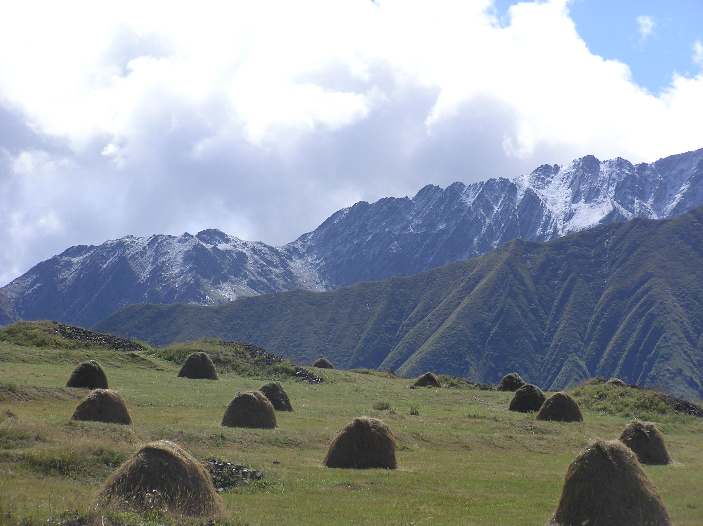 Teroso Valley Packages